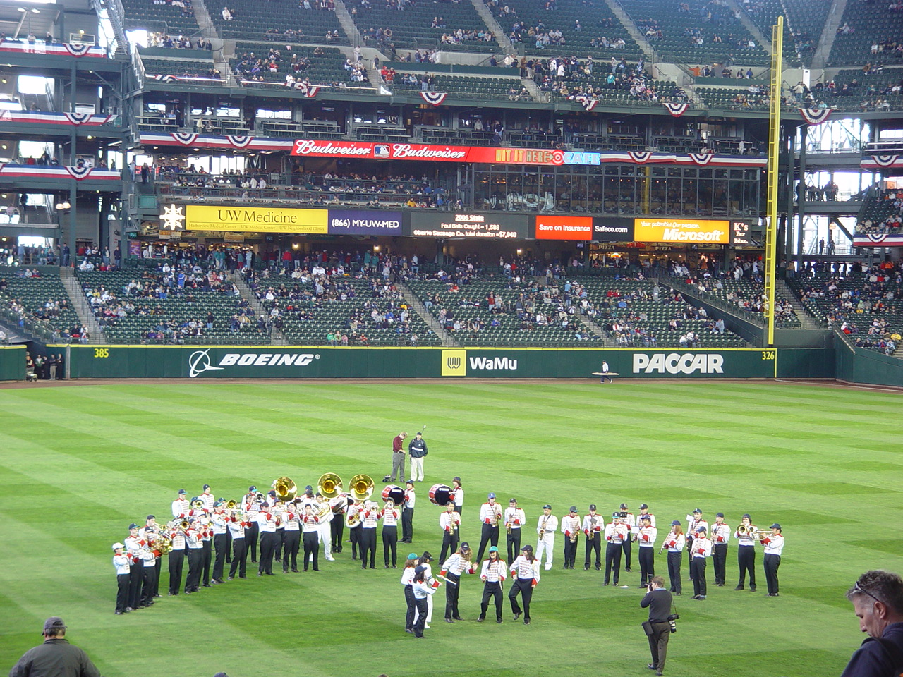 The Newport High School Marching Band performing at the Seattle Mariners Opening Day (Safeco Field, Seattle, WA)